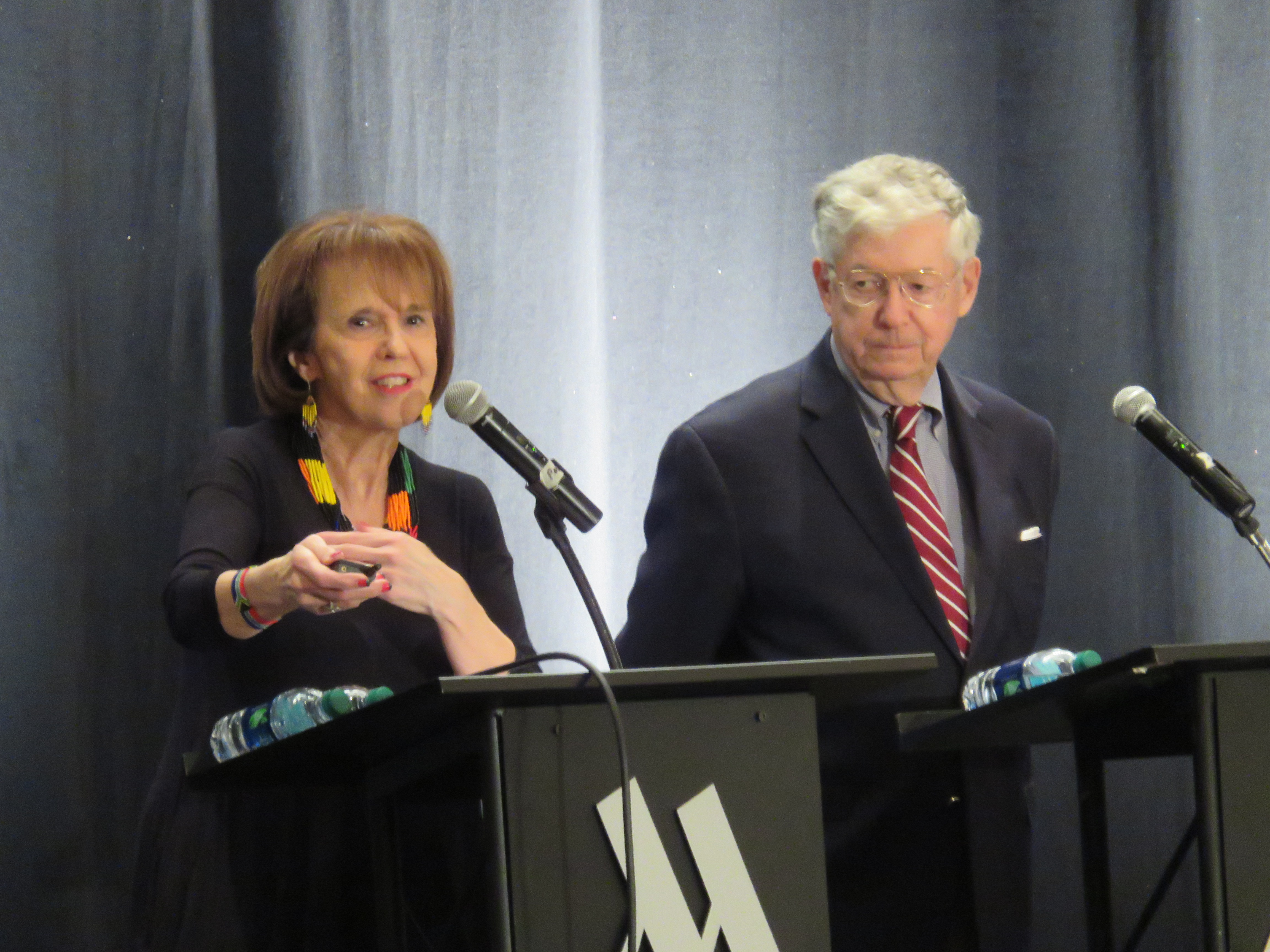 Ann and Rud Turnbull speaking about how they helped to create "an enviable life" for their son, Jay, at the TASH 2017 Annual Conference, 14 December 20017